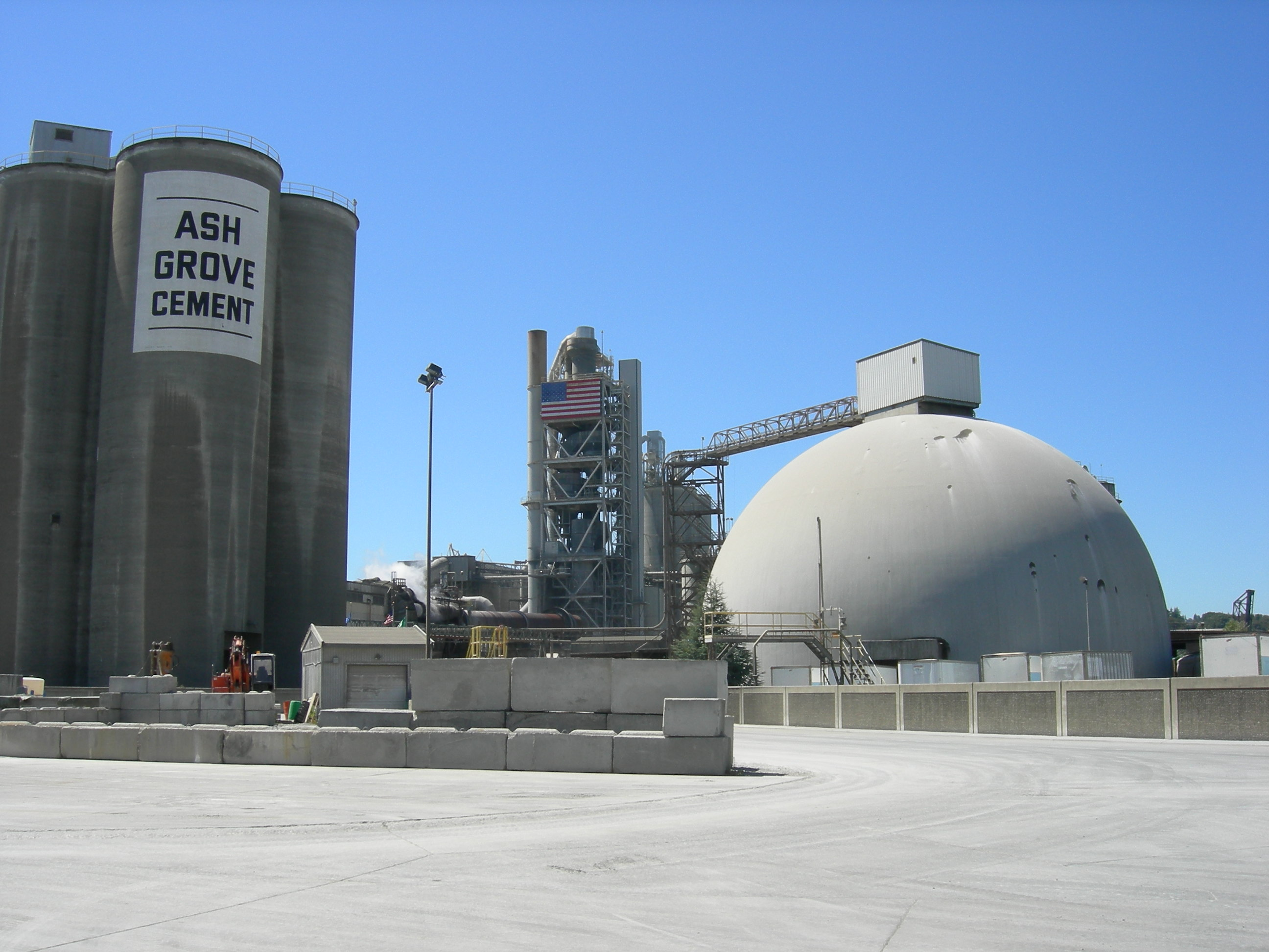 Ash Grove Cement Factory along the Duwamish River just south of Spokane Street in Seattle, Washington.